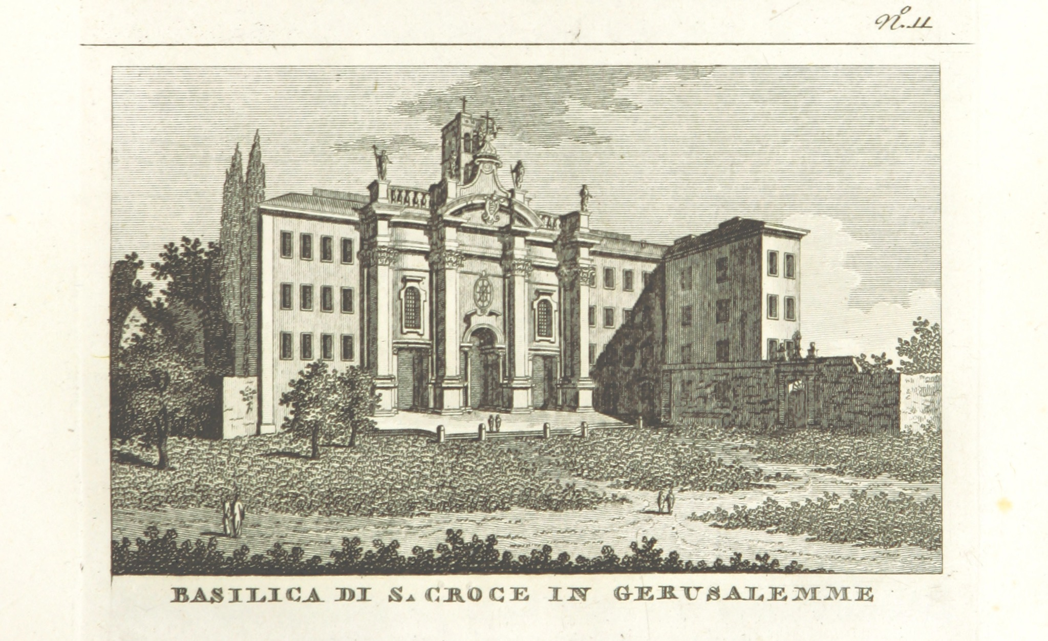 Title: "Vedute antiche e moderne le più interessanti della città di Roma, incise da vari autori, in numero 100. (Explication ... rédigée ... par E. Piale.)", "Appendix. Topography" Contributor: PIALE, Stefano. Author: Rome (Italy) Shelfmark: "British Library HMNTS 10131.h.1." Page: 33 Place of Publishing: Rome Date of Publishing: 1820 Publisher: V. Monaldini Issuance: monographic Identifier: 003147404